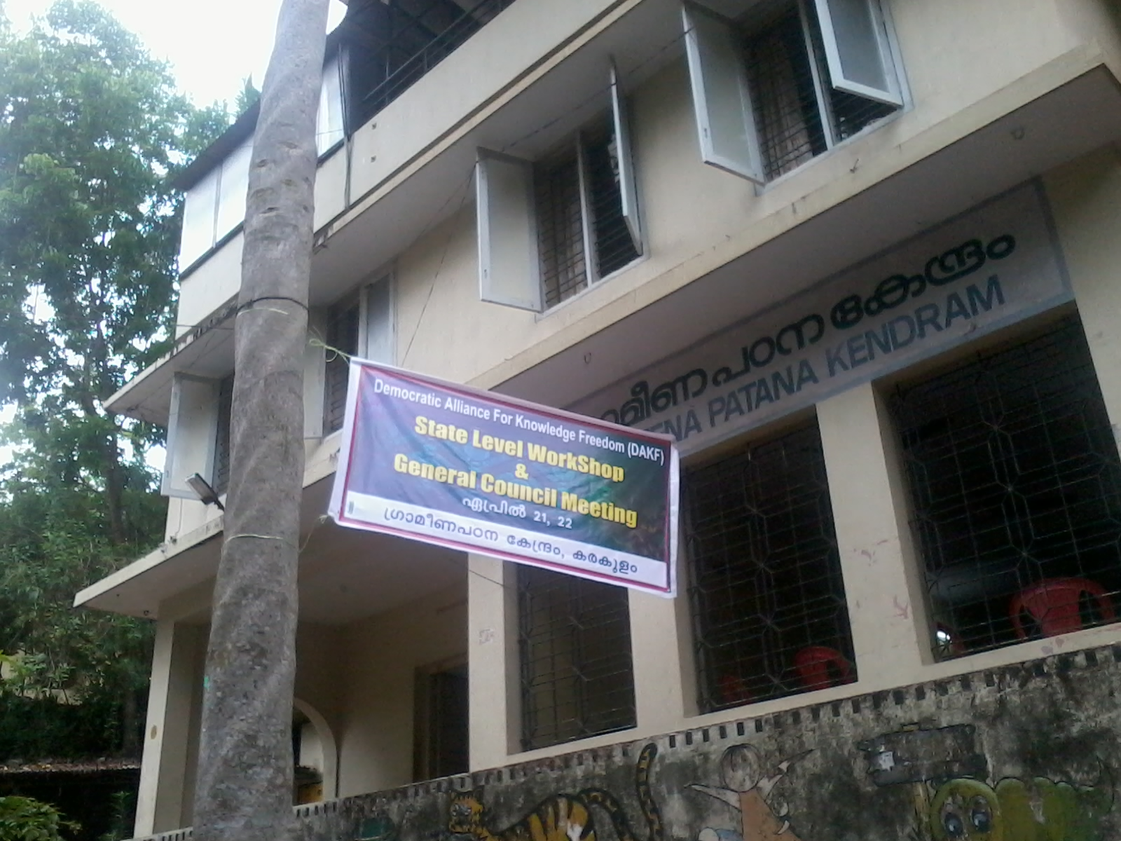 A Study center in Trivandrum District, Kerala